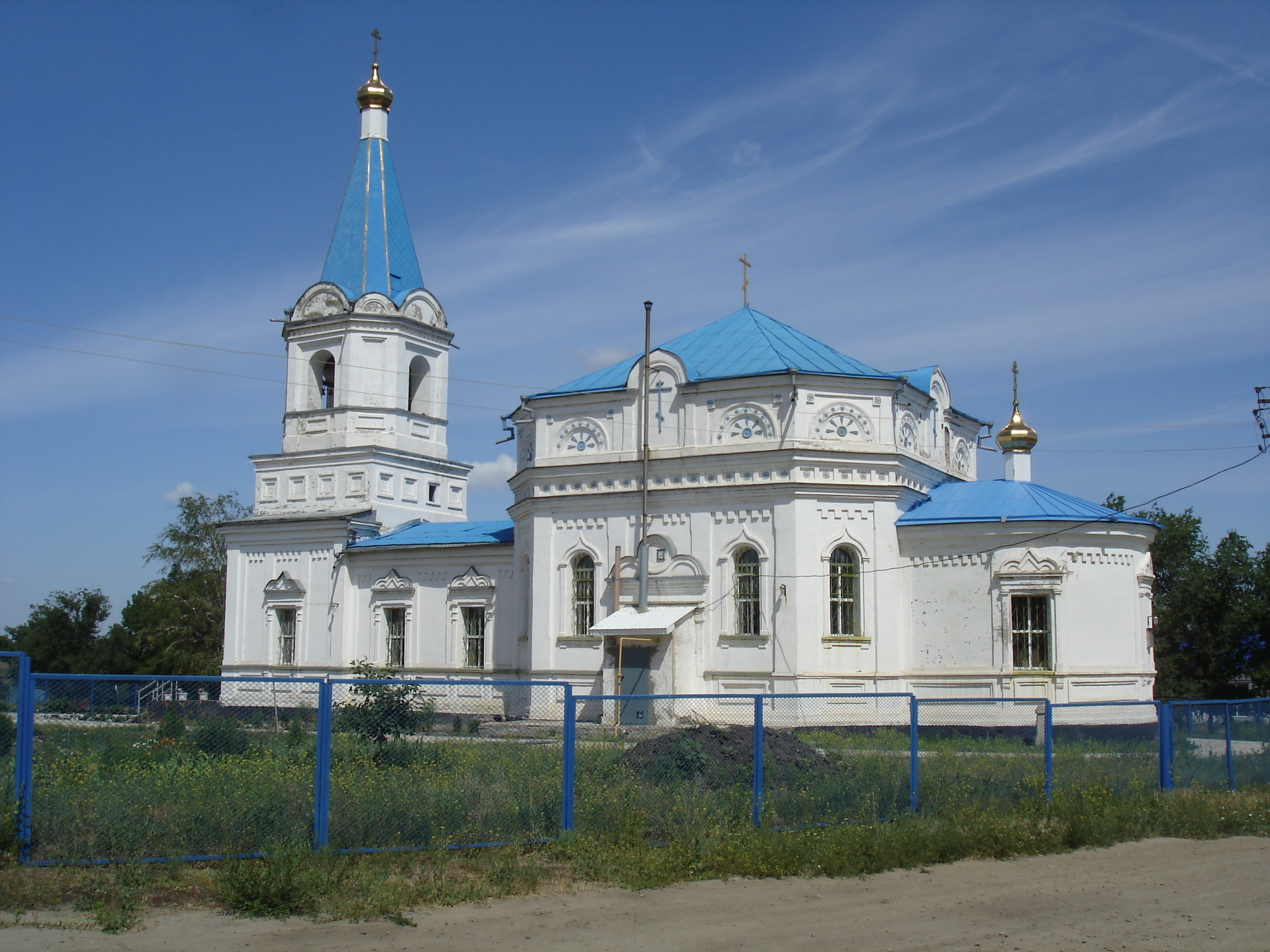 Church at Bogdanov village (Kamenskiy rayon, Rostovskaya oblast, Russia)